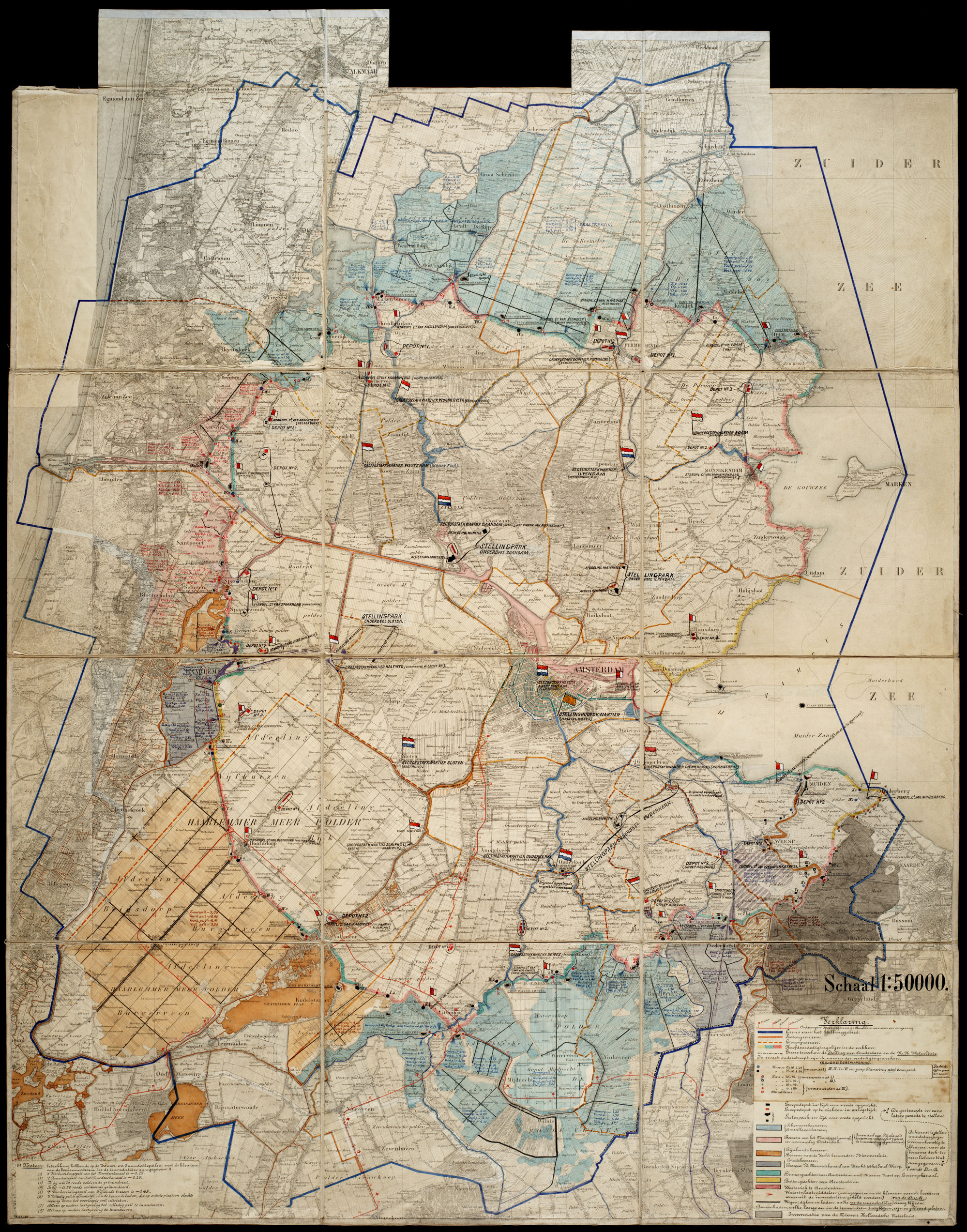 Inundatiekaart. Schaal 1:25000 grijsdruk met verschillende gegevens., 1914. Nationaal Archief, Den Haag, Nieuwe Hollandse Waterlinie: Hoofdkwartier, nummer toegang 3.09.19, inventarisnummer 40